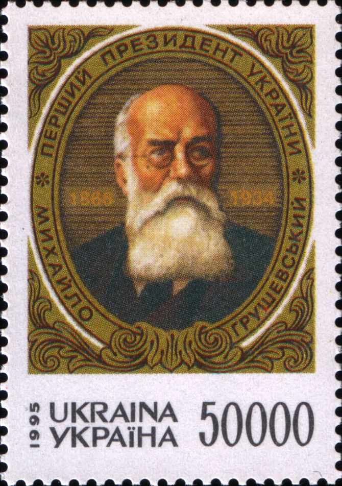 Stamp of Ukraina, Mykhailo Hrushevsky, 1995, 50000 k.